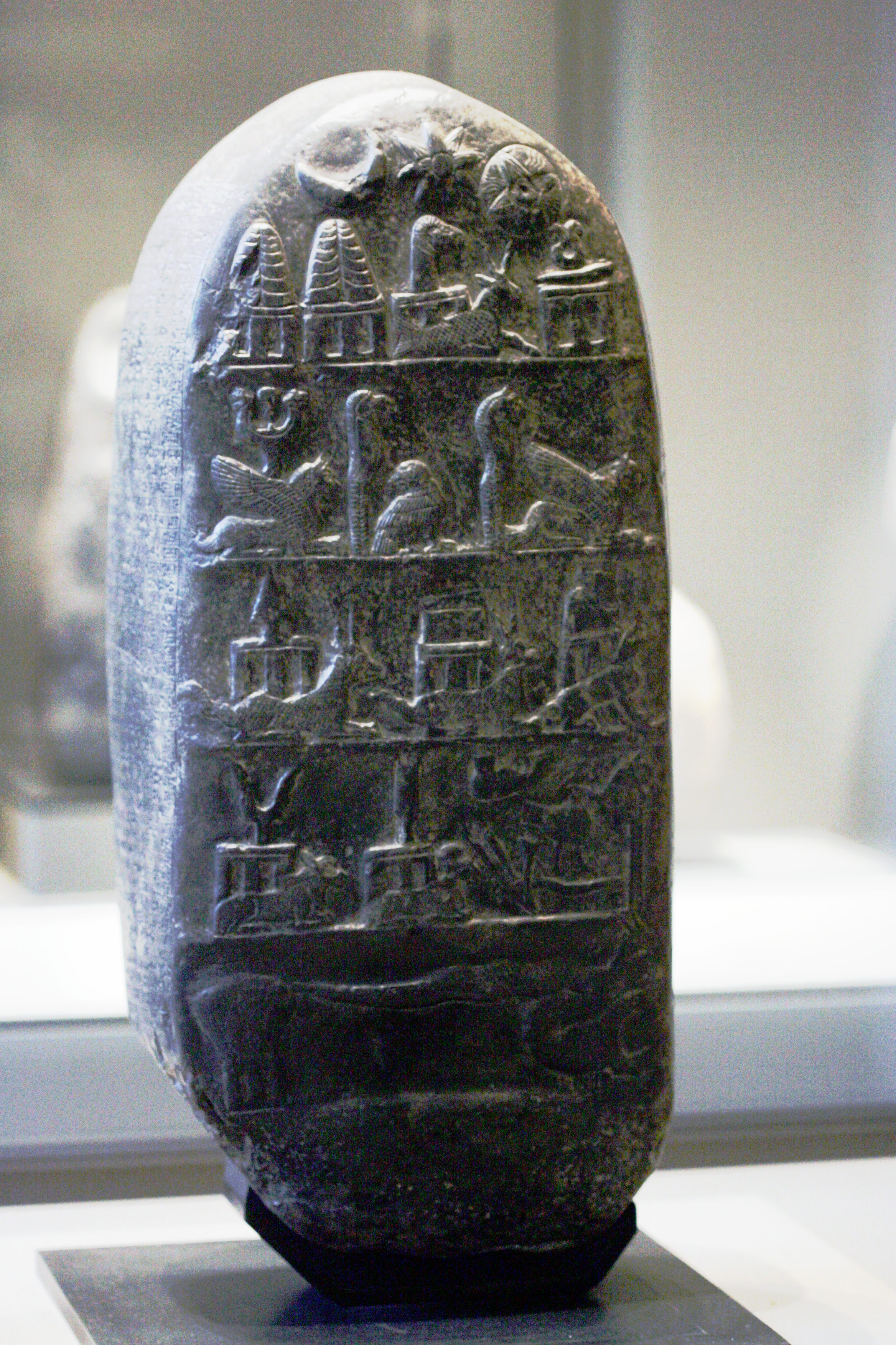 Kudurru of king Meli-Shipak II (1186–1172 BC): land grant to Marduk-apal-iddina I. Kassite period, taken to Susa in the 12th century BC as spoils of war. Note: Extensive cuneiform text can be seen on the monumental stone's side, at Photo-left. Datefrom 1186 until 1172 BCMediumgrey-black limestoneCurrent location (Inventory)Louvre Museum Native nameMusée du LouvreLocationParisCoordinates48° 51′ 37″ N, 2° 20′ 15″ E Established1793Website control : Q19675 VIAF: 257711507 ISNI: 0000 0001 2260 177X ULAN: 500125189 LCCN: n80020283 NLA: 35912436 WorldCat Richelieu, Rez-de-chaussée, Mésopotamie, IIe et Ier millénaires avant J.-C., Salle 3Accession numberSb 22Credit lineFound by MorganReferencesLouvre.frSource/PhotographerRama